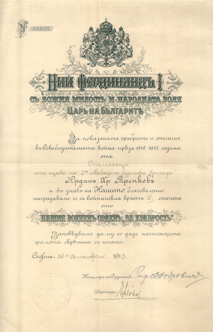 Yordan Trenkov's Order For Bravery Doploma